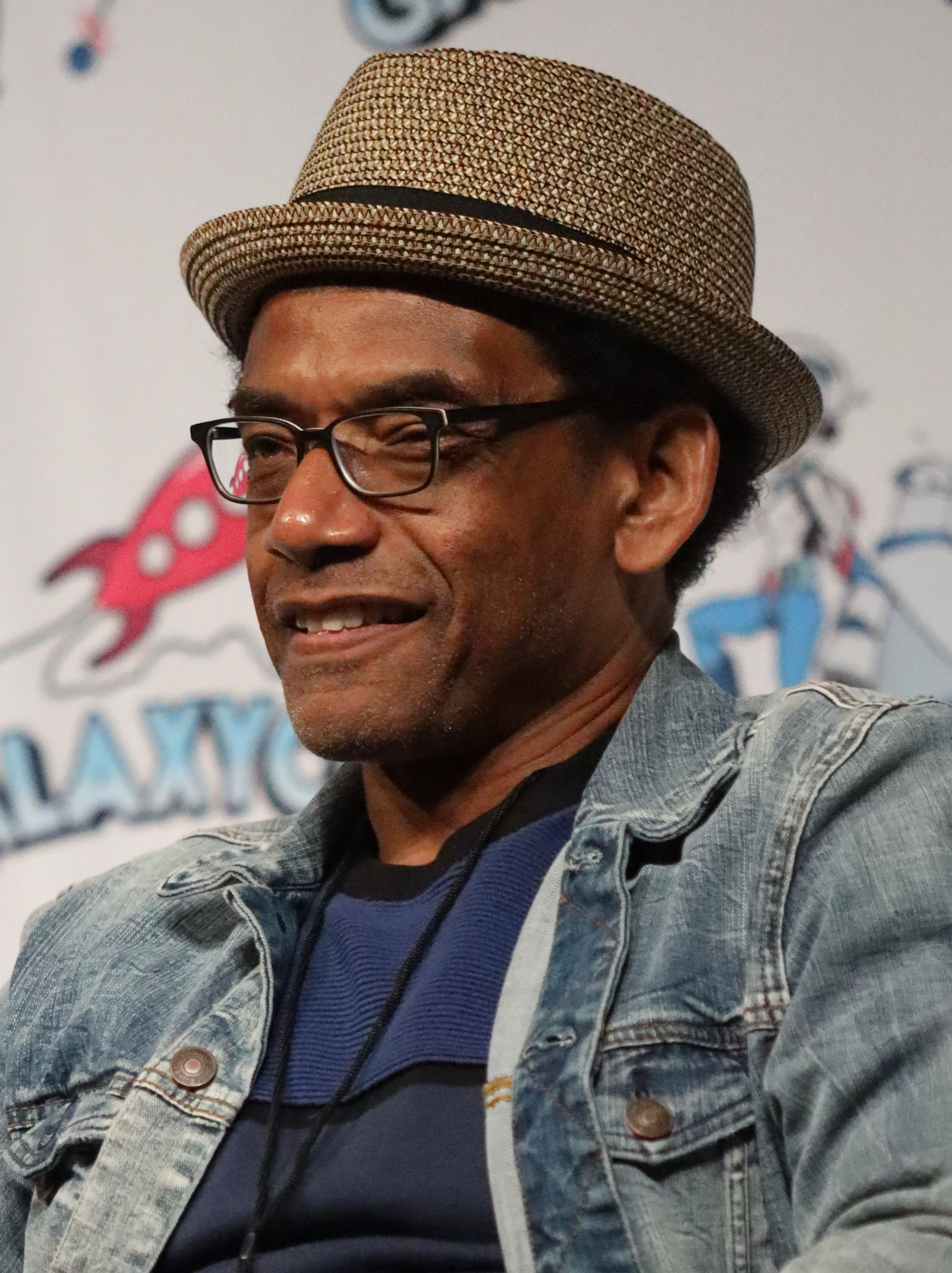 Greg Eagles at GalaxyCon Richmond in 2020